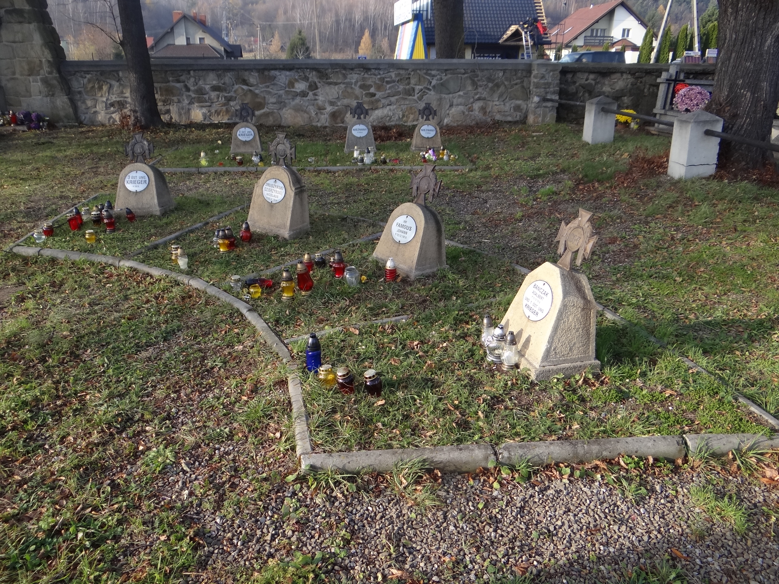 World War I Cemetery nr 347 in Barcice